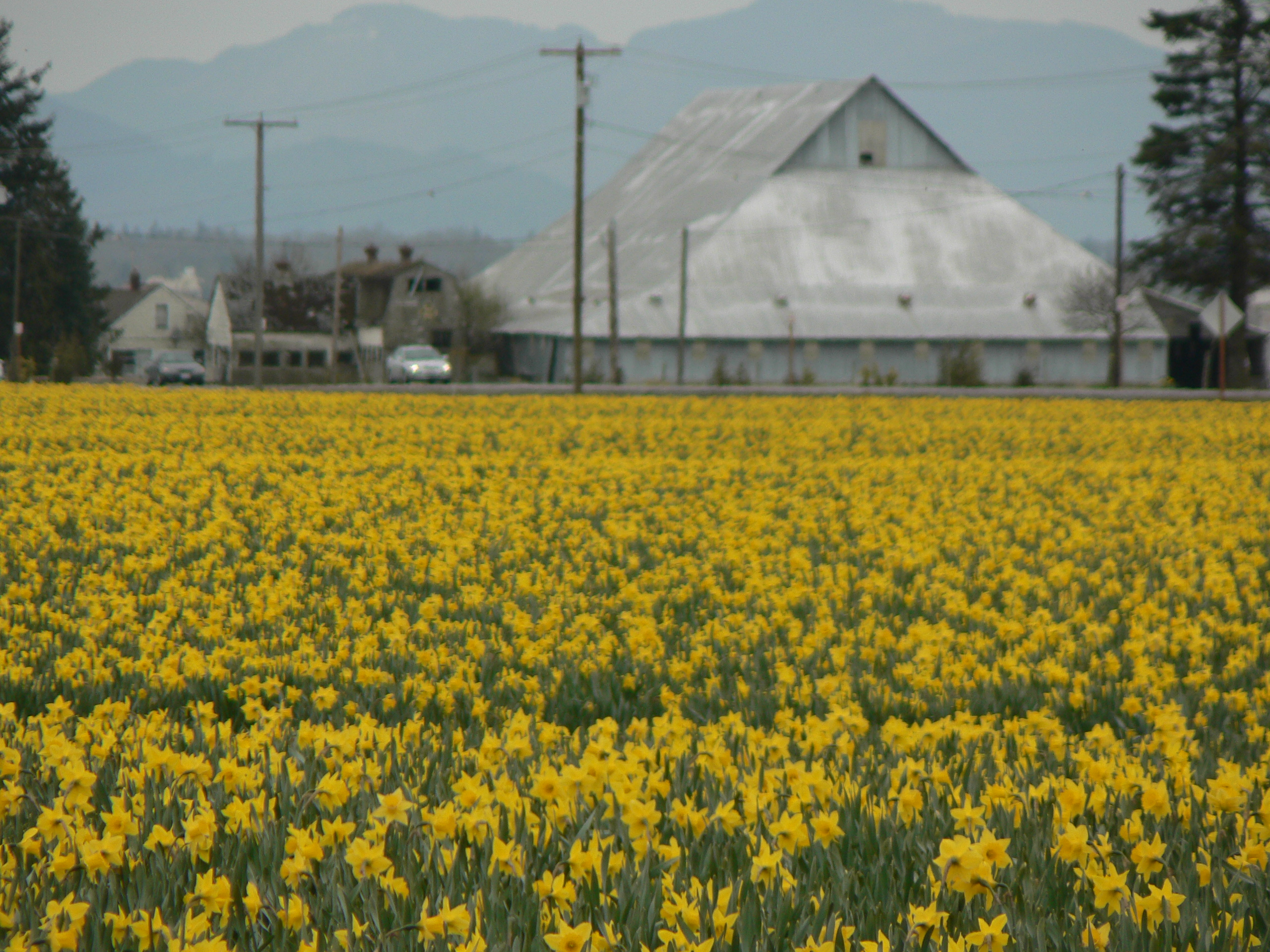 Daffodil bulb field, Anacortes, Washington